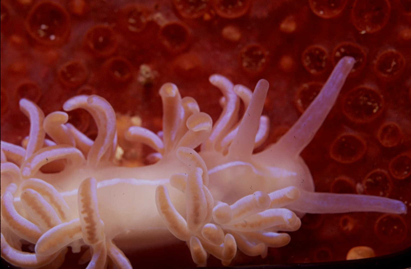 A photograph of the coral nudibranch, Phyllodesmium horridum, taken in 23m of water in False Bay off the South African coast using a Nikonos V camera. Total length of animal about 30mm.